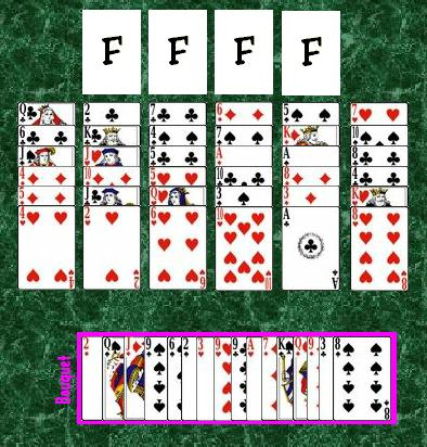 This is a diagram of the game of Flower Garden, based on a simulated layout. The image is made in Microsoft Paint and the cards used were based on the SVG Playing Cards.